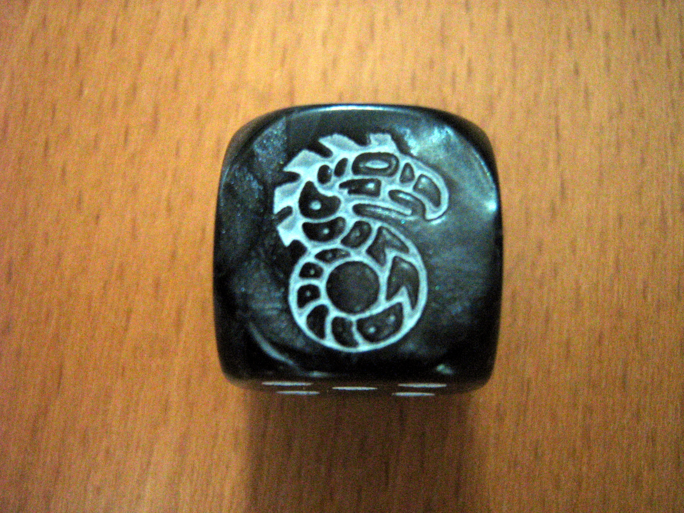 Dice six sided for the role-playing game Shadowrun